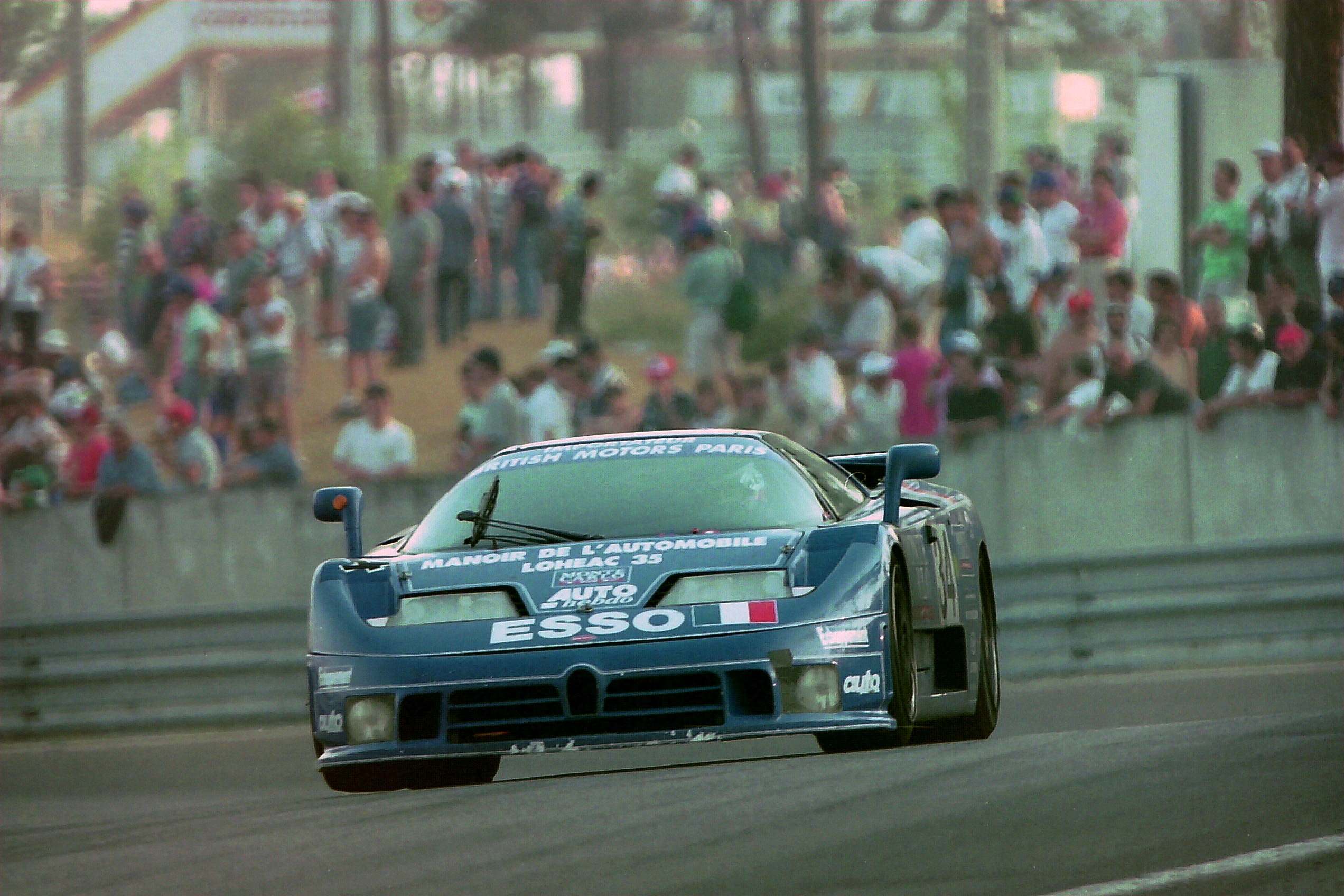 Bugatti EB110 SS - Alain Cudini, Eric Helary & Jean-Christophe Boullion exits the Esses at the 1994 Le